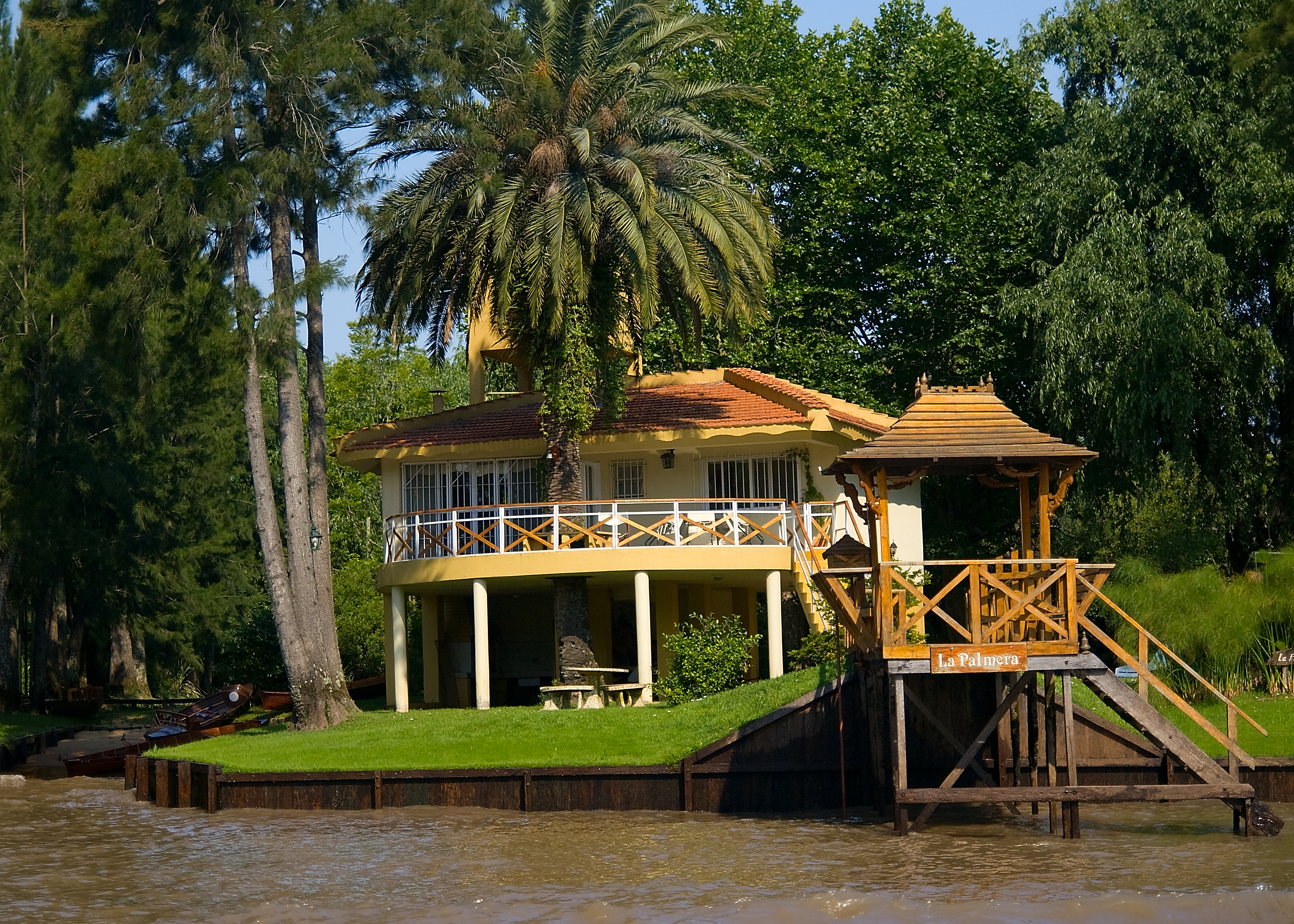 La Palmera - Palm tree goes right trough balcony